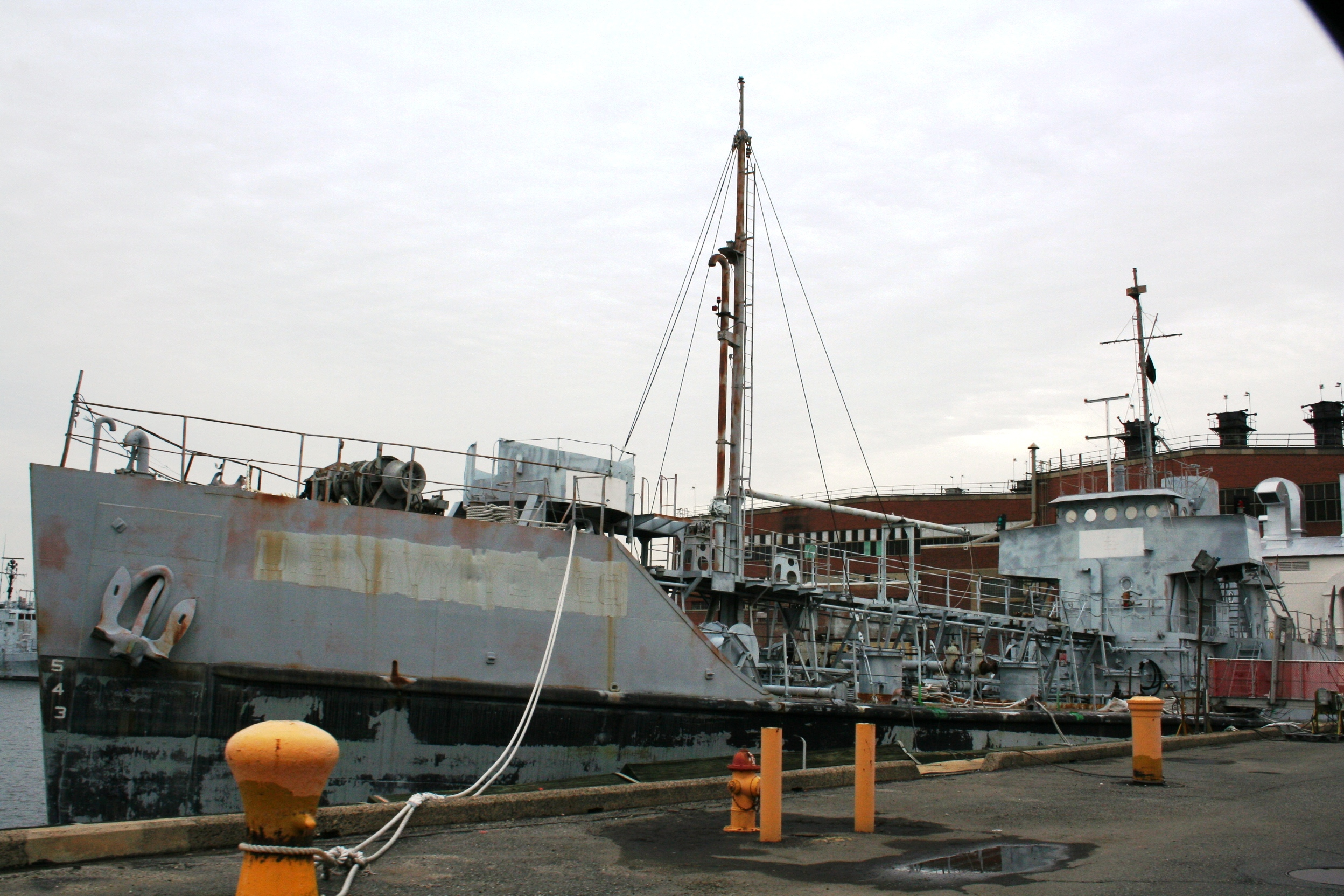 Navy YO (ex YO-0260, stricken) at Philadelphia Naval Shipyard